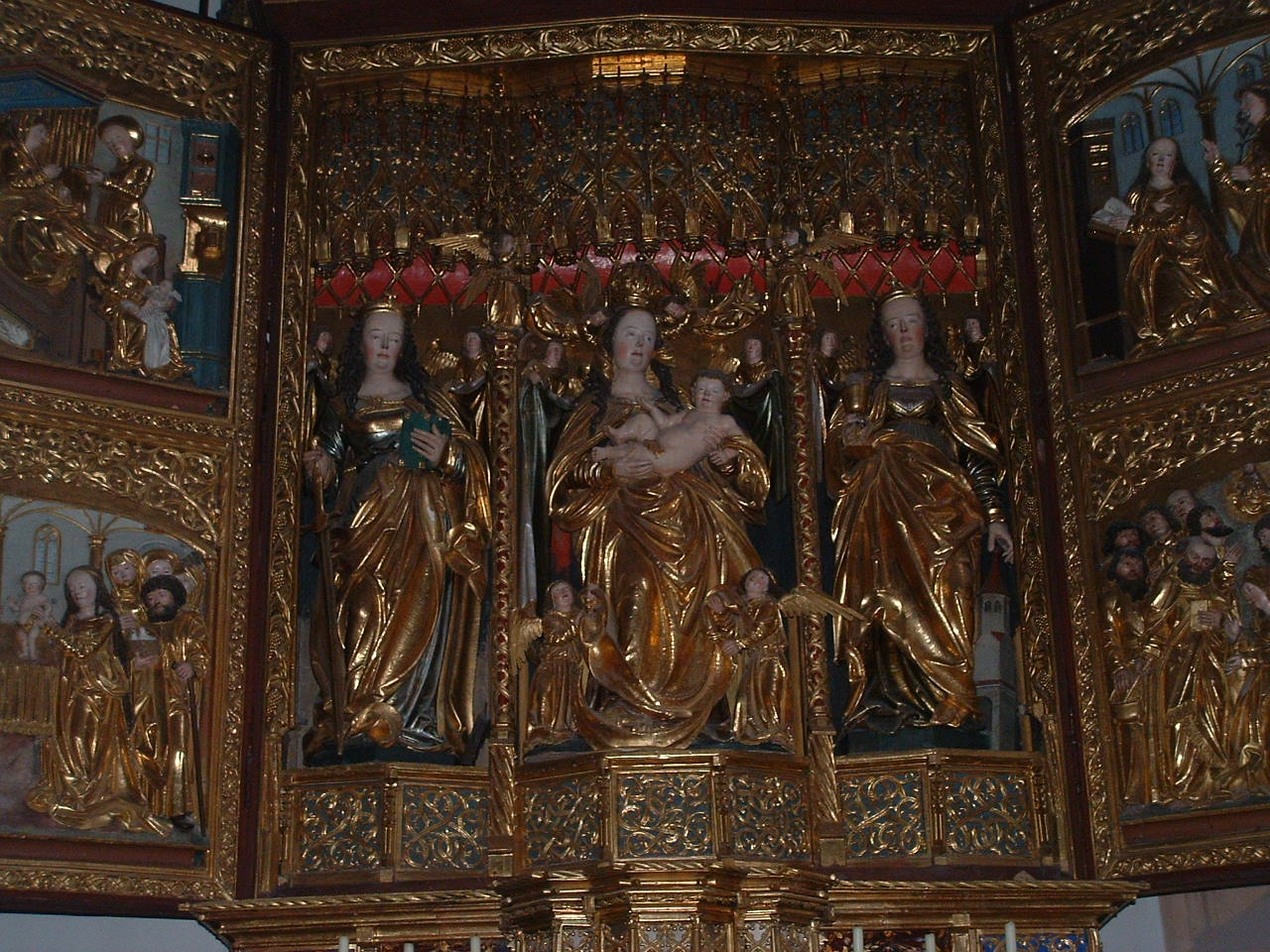 Carved altar at Hallstatt church. Photograph by Gakuro 2005